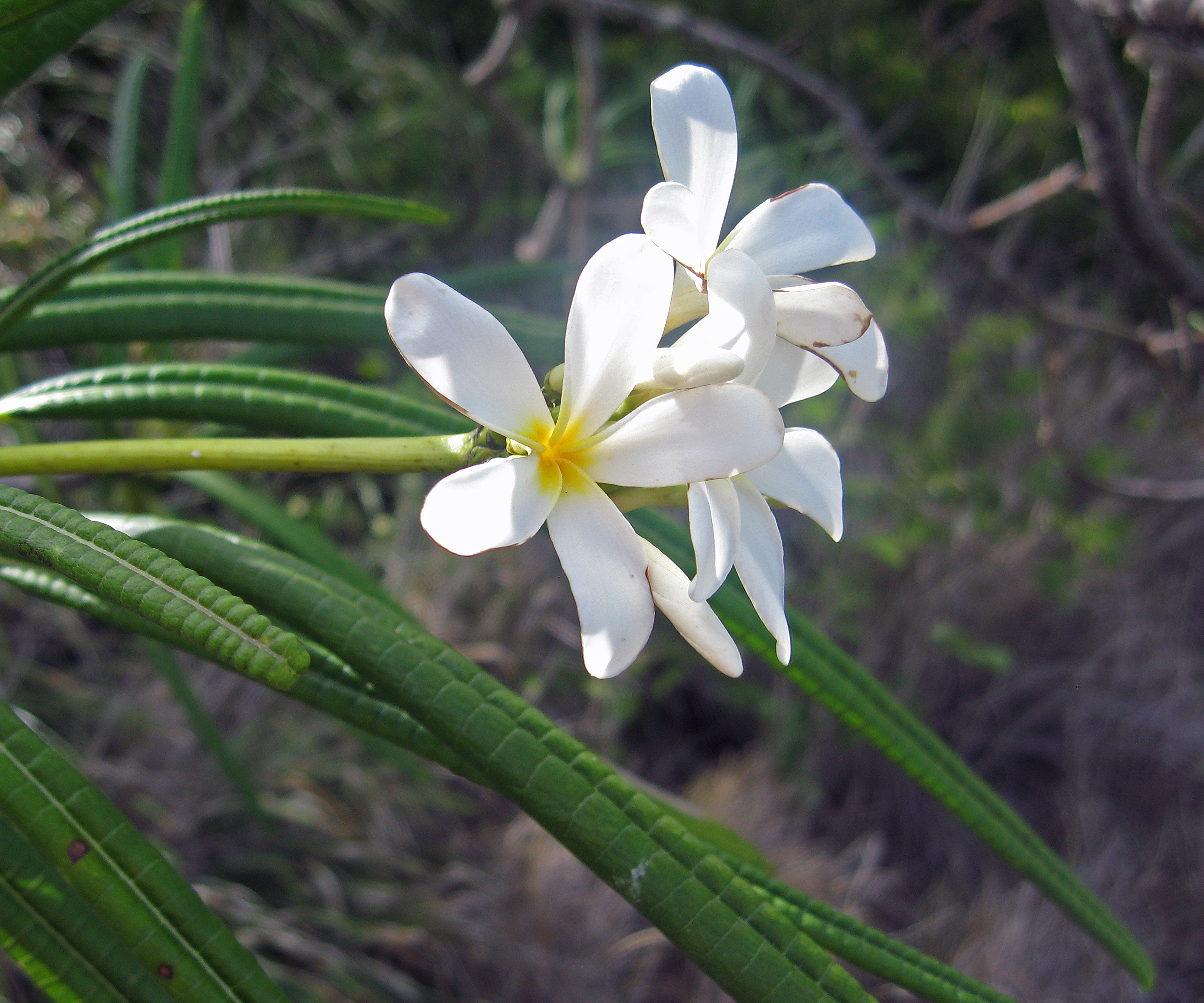 Plumeria alba. Location: Cinnamon Bay, St. John, US Virgin Islands More information: University of Florida extension